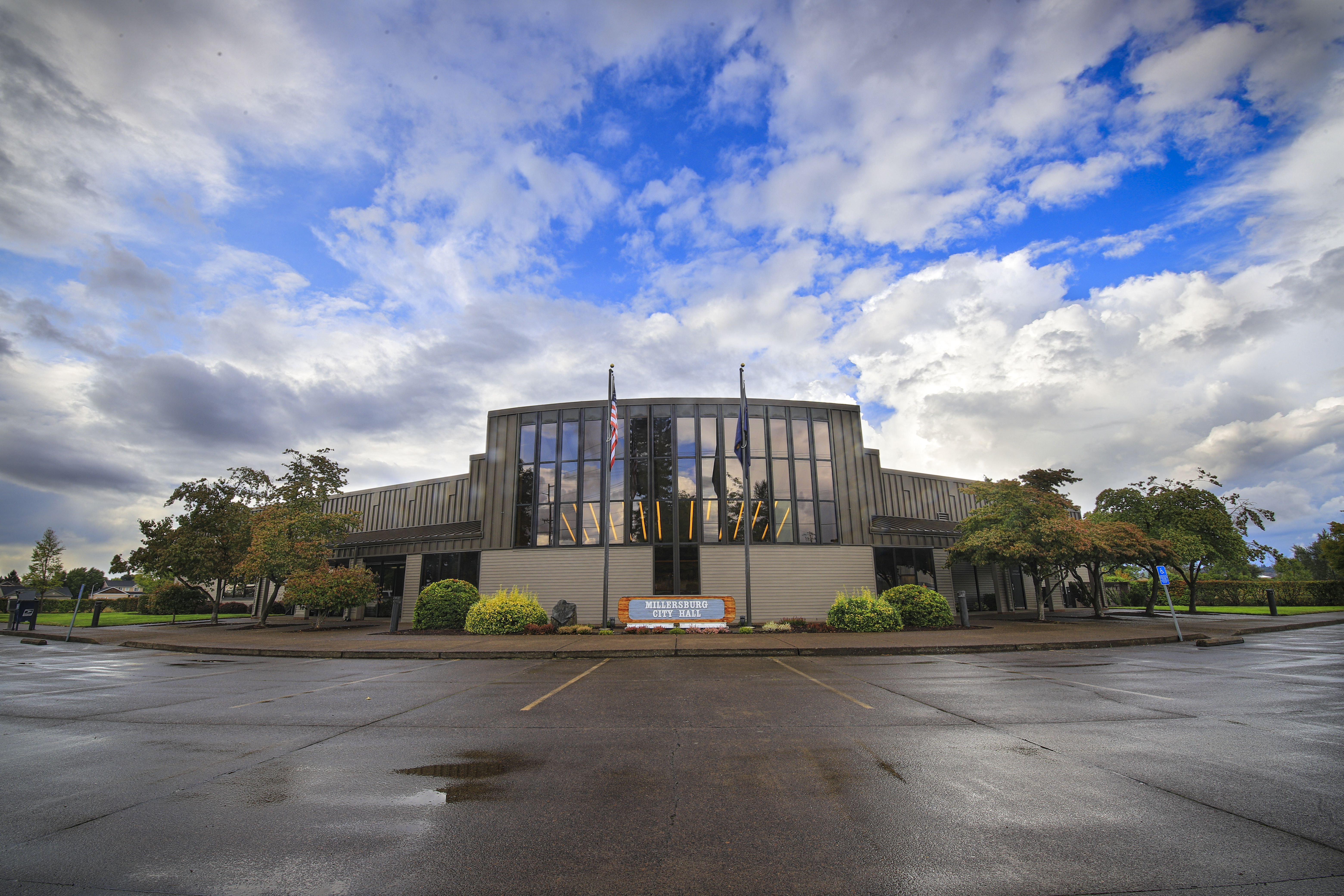 None